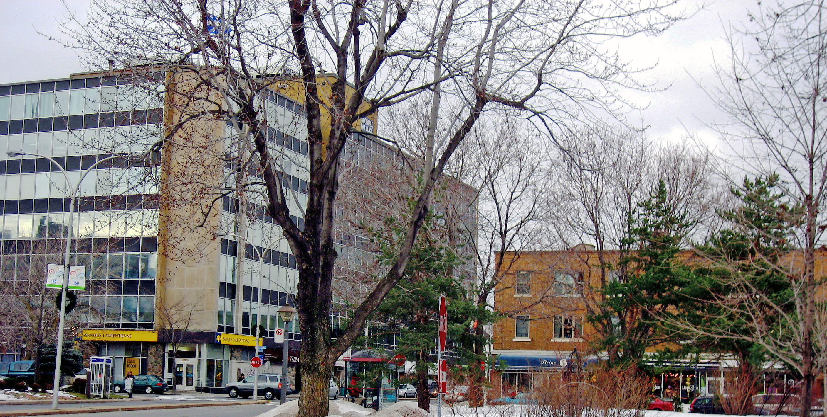 The city center of the city of Saint Lambert, Quebec